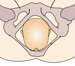 The left occipito-anterior variant of cephalic presentation